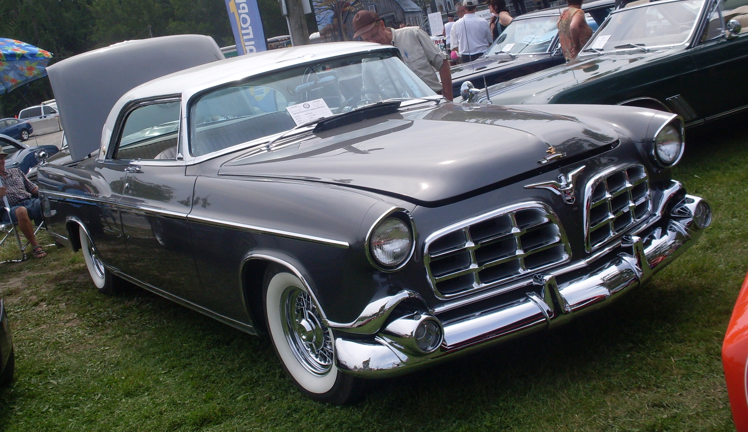 1956 Imperial Two-Door Southampton Hardtop photographed in Laval, Quebec, Canada at Auto classique VACM Laval.